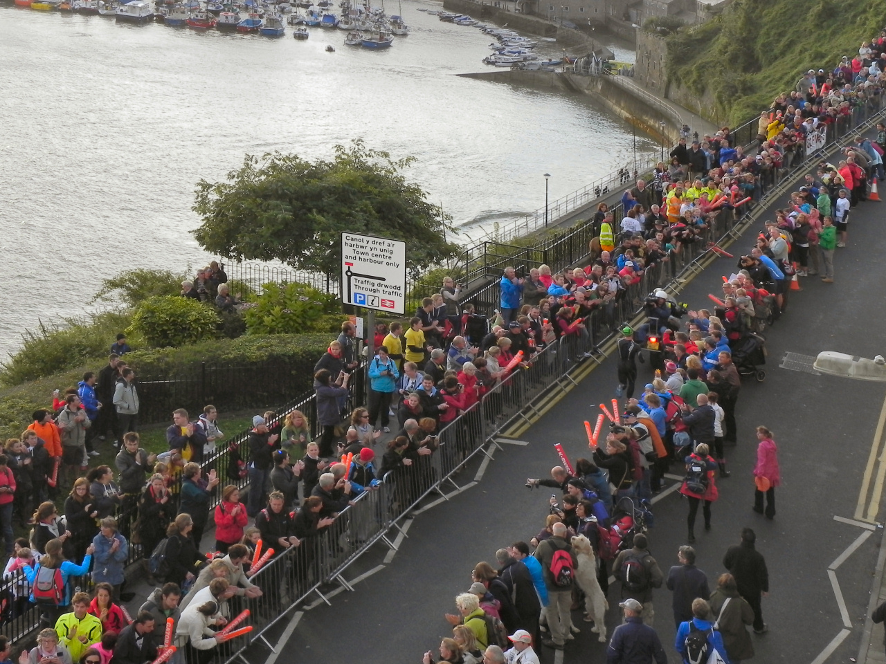 Spectators cheer the first athlete to complete the 3.8km swim of Ironman Wales . After running up the slope from the beach, he is now running to collect his bike for the second stage of the triathlon event.